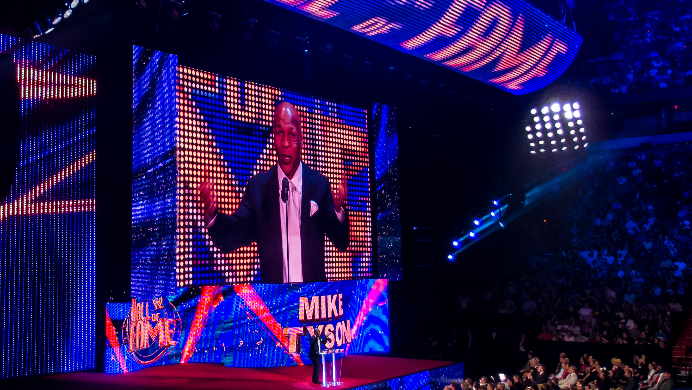 Mike Tyson being inducted into the WWE Hall of Fame.